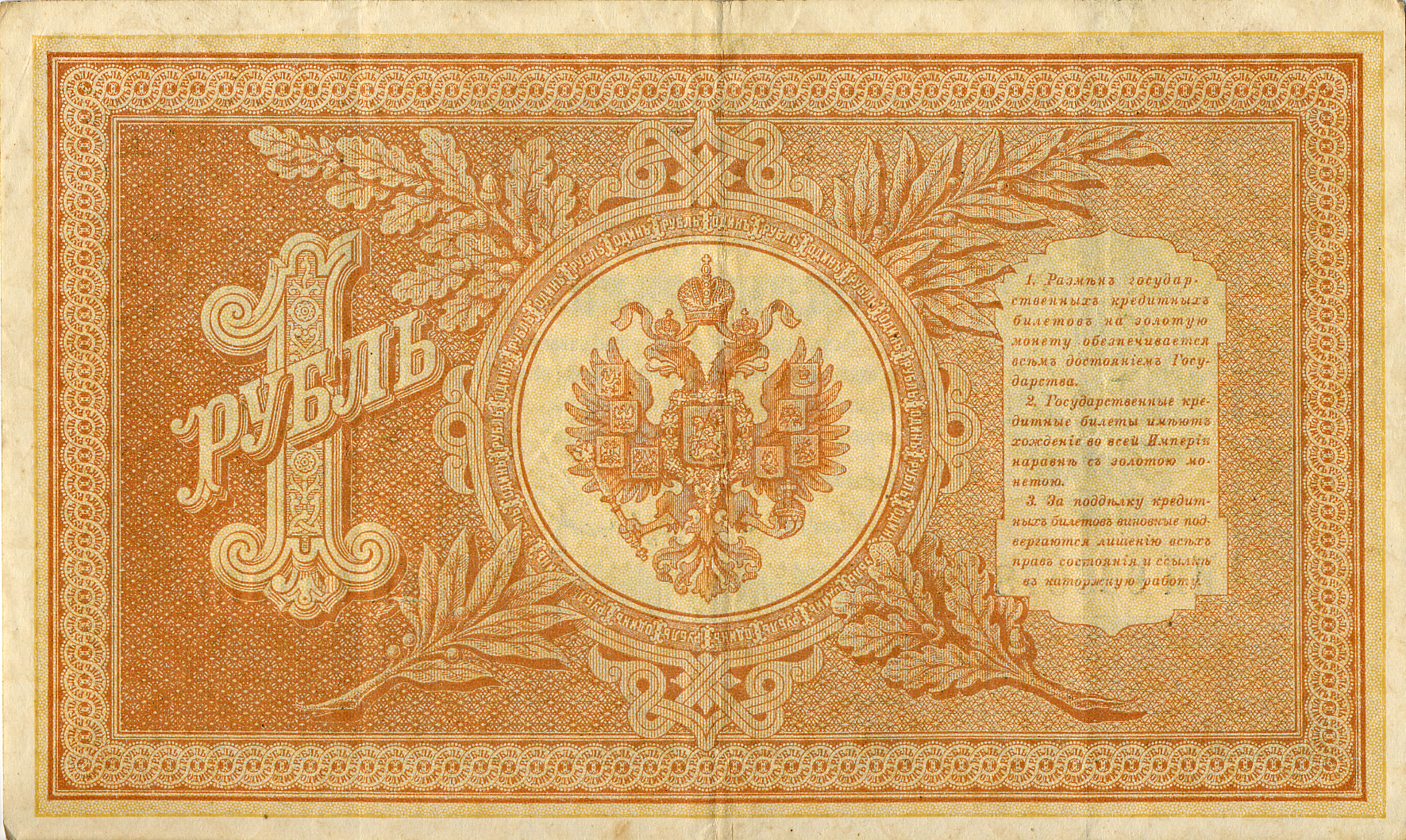 1898 Russian Empire 1 ruble bill. Obverse.